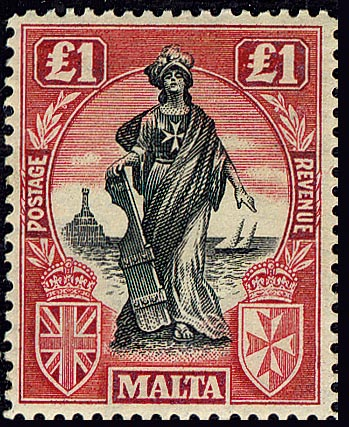 Malta 1922 One Pound stamp, SG 140